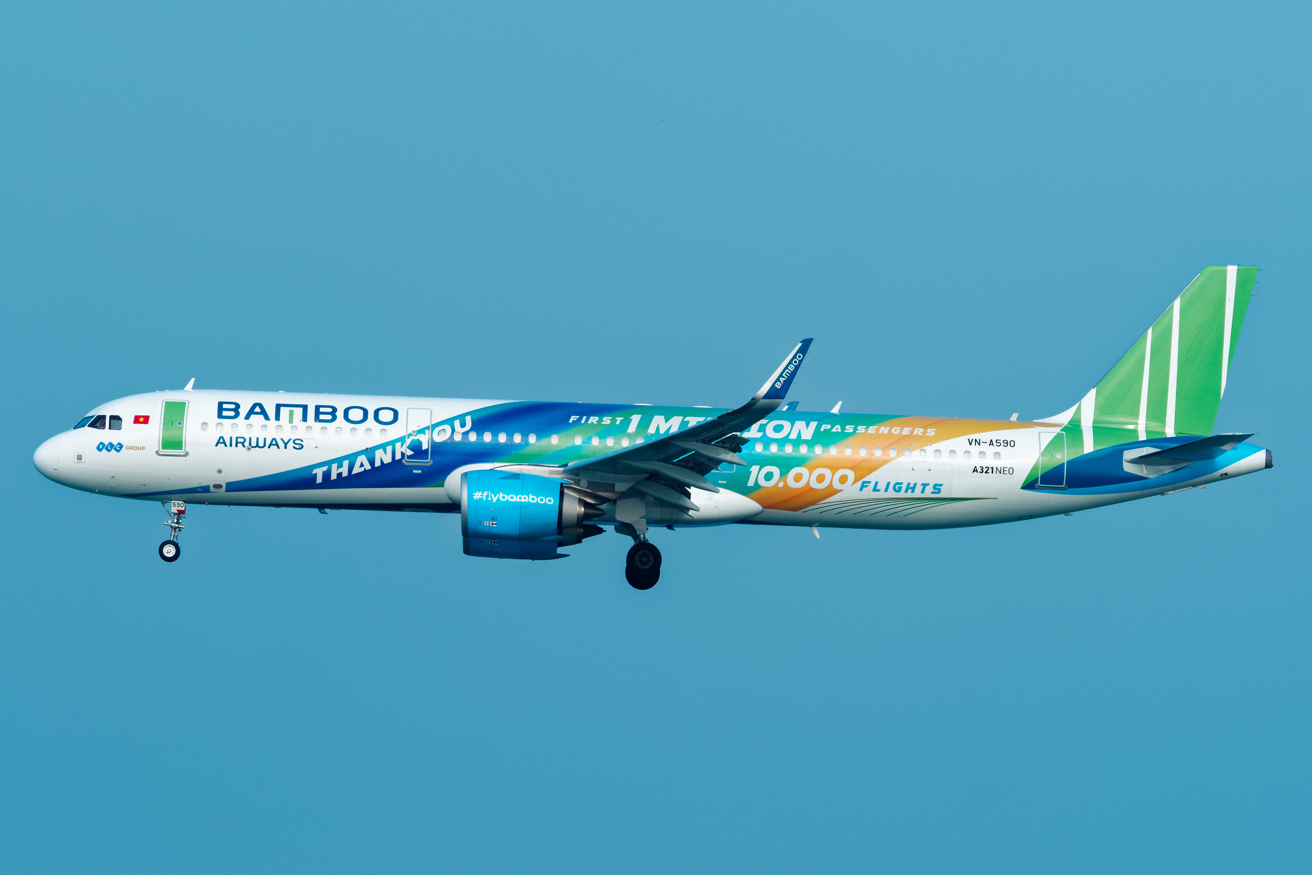 Bamboo Airways Airbus A321-200 NEO VN-A590